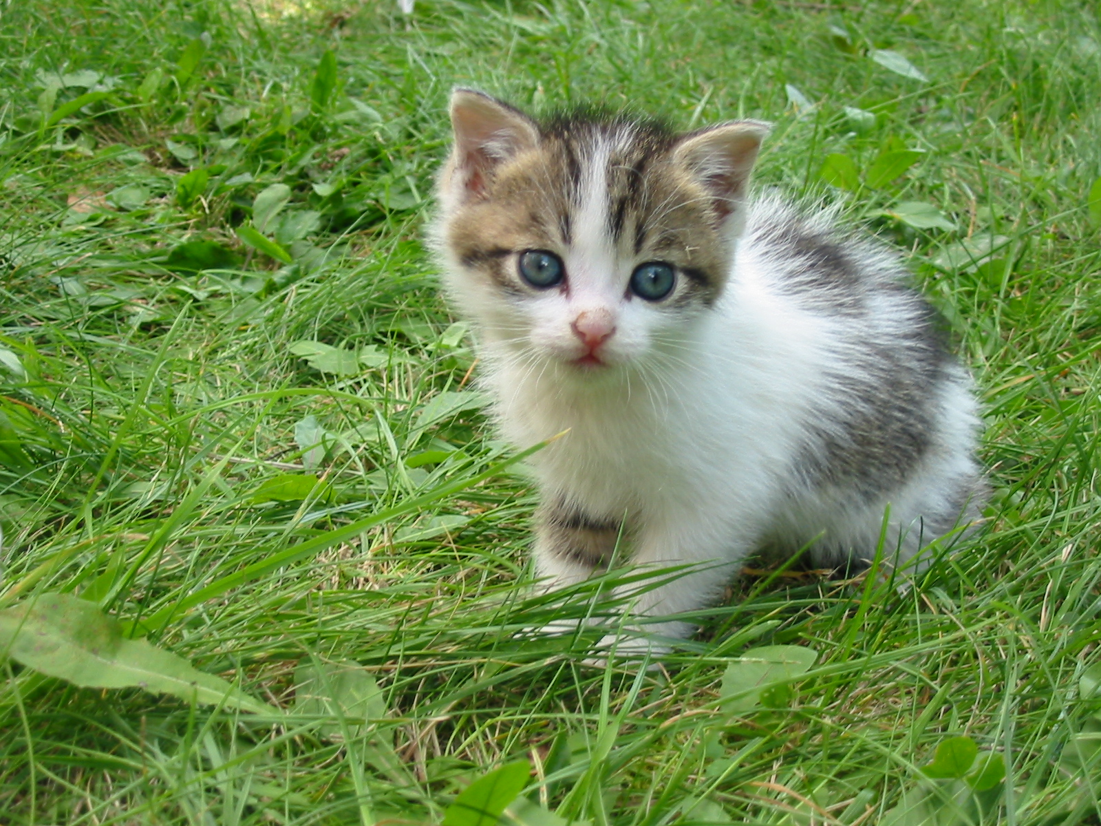 Stray kitten.